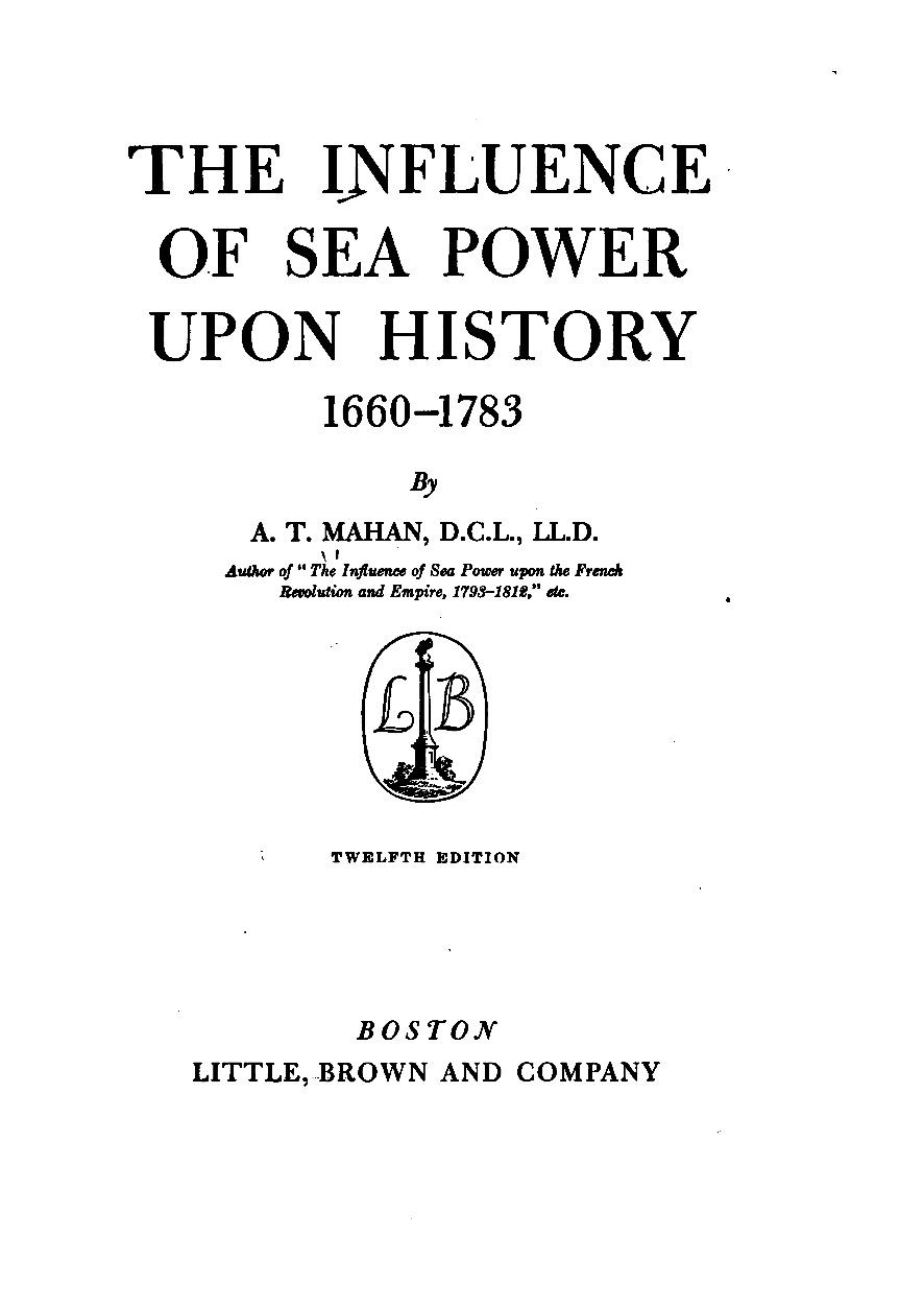 Title page of Alfred Thayer Mahan's book The Influnce of Sea Power Upon History.